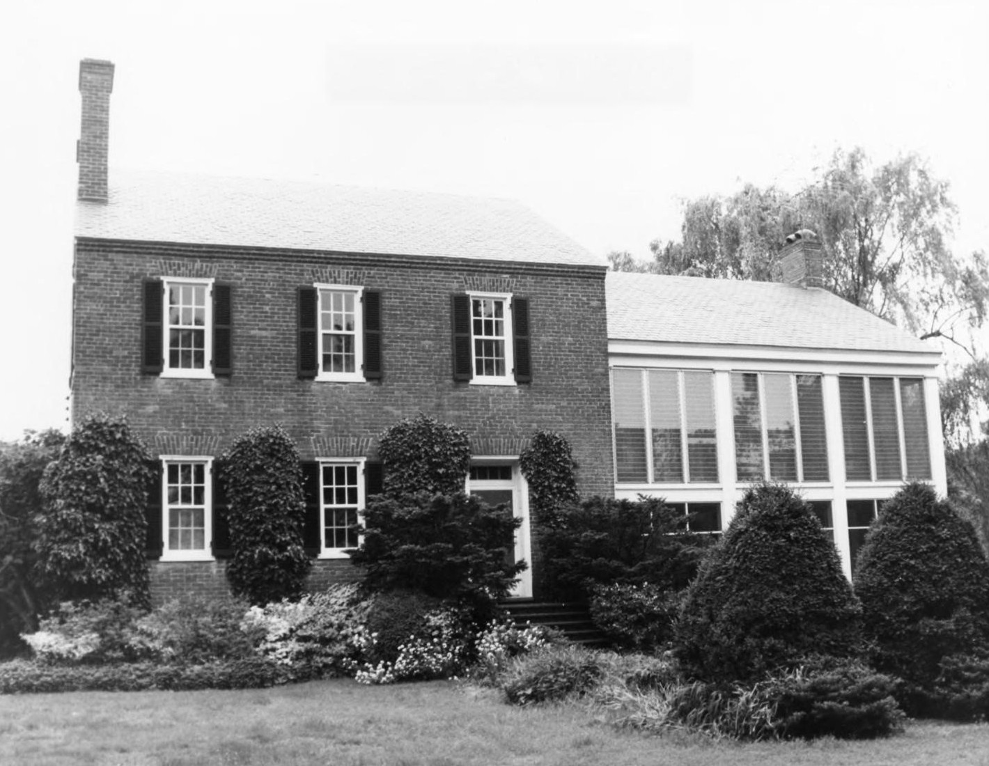 Spence's Point, John Dos Passos Farm, (Westmoreland County, Virginia) cropped This image or media file contains material based on a work of a National Park Service employee, created as part of that person's official duties. As a work of the U.S. federal government, such work is in the public domain in the United States. See the NPS website and NPS copyright policy for more information. Object location38° 04′ 46″ N, 76° 33′ 26″ W